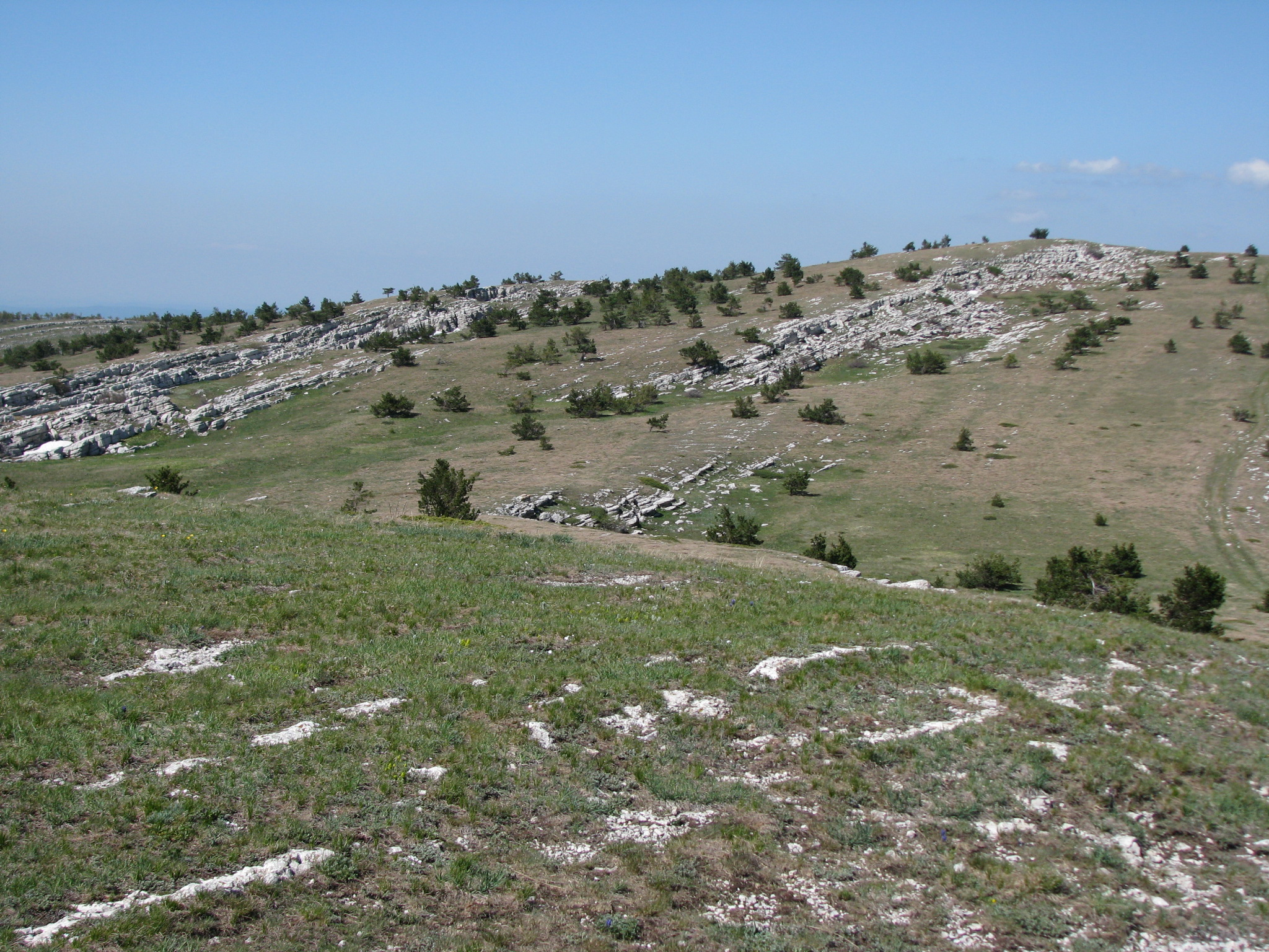 Yalta yayla (Crimean mountains)